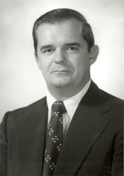 Joseph D. Early, US Representative from Massachusetts